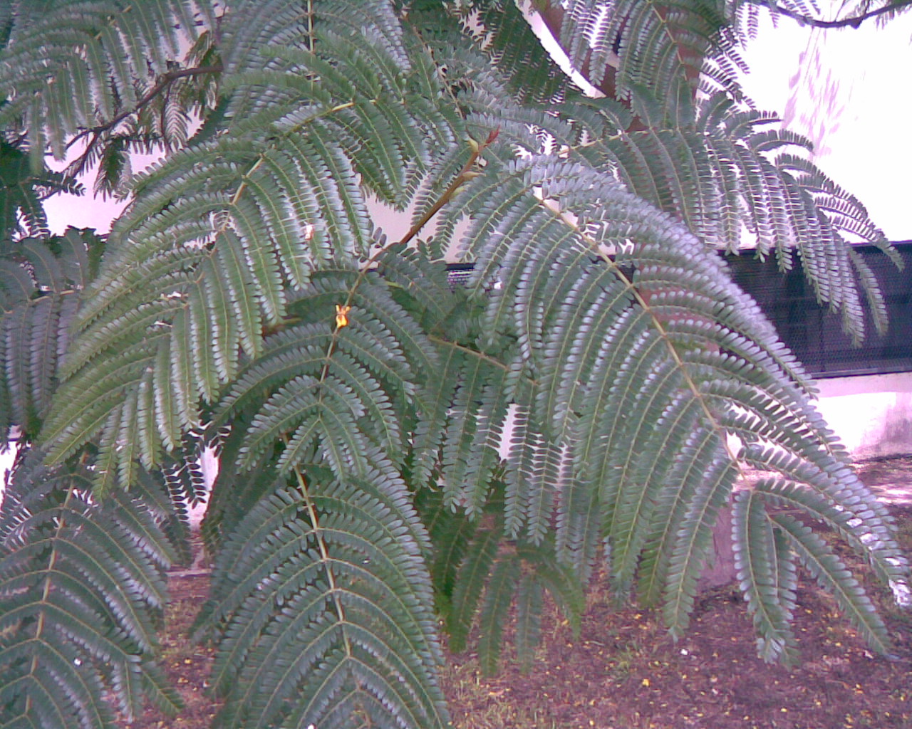 Peltophorum_dubium Ibira-pita